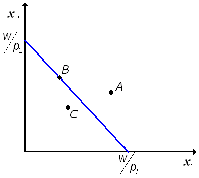 Budget Line on the x_1 x_2 axes